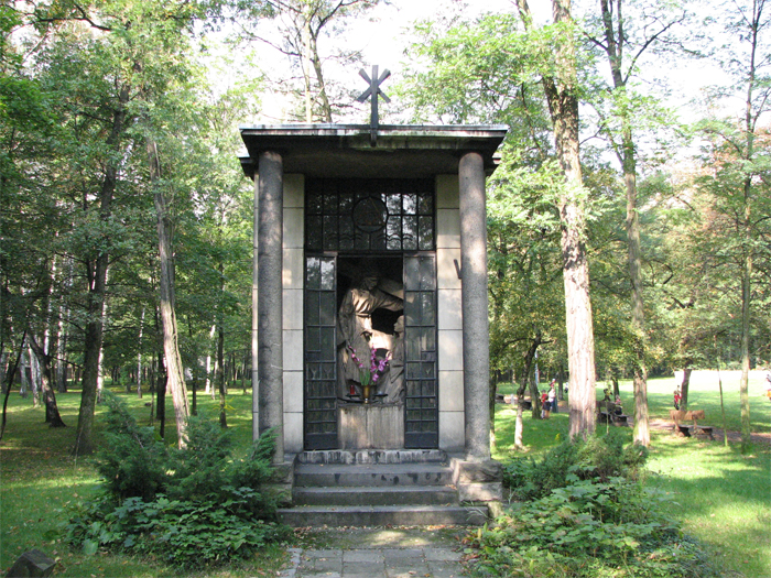 Calvary in Katowice Panewniki, Stations of the Cross - "Veronica wipes the face of Jesus". Completed in 1938. Sculptor Marian Wnuk.